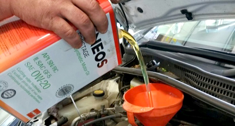 0W-20 oil change at Toyota Prius Moscow